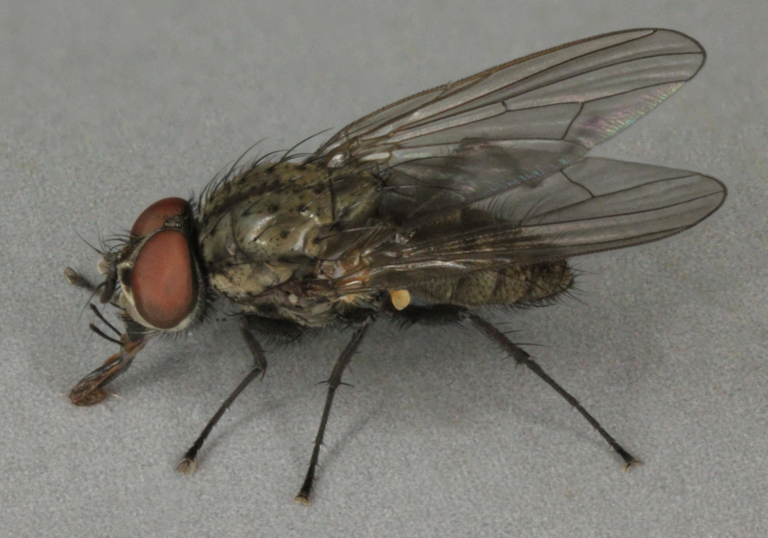 Delia platura, Nebo, North Wales, July 2012